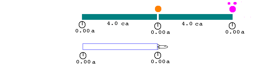 Twinparadox/from the earth's perspective